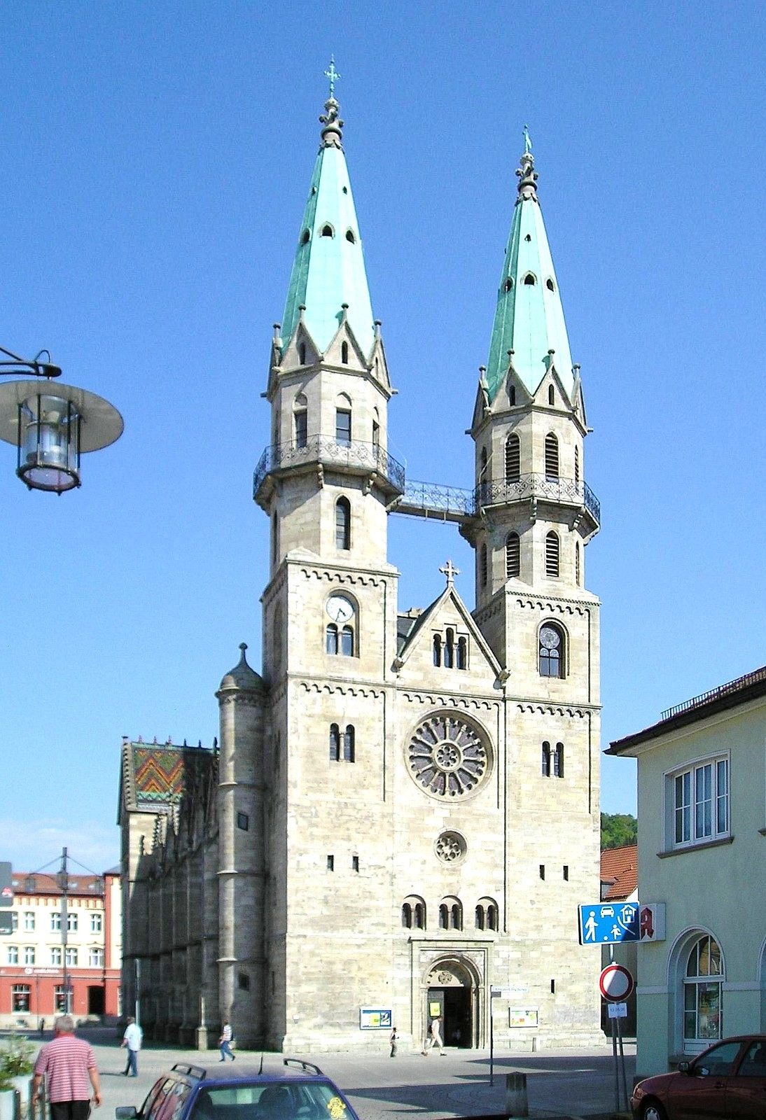 church in Meiningen, Germany